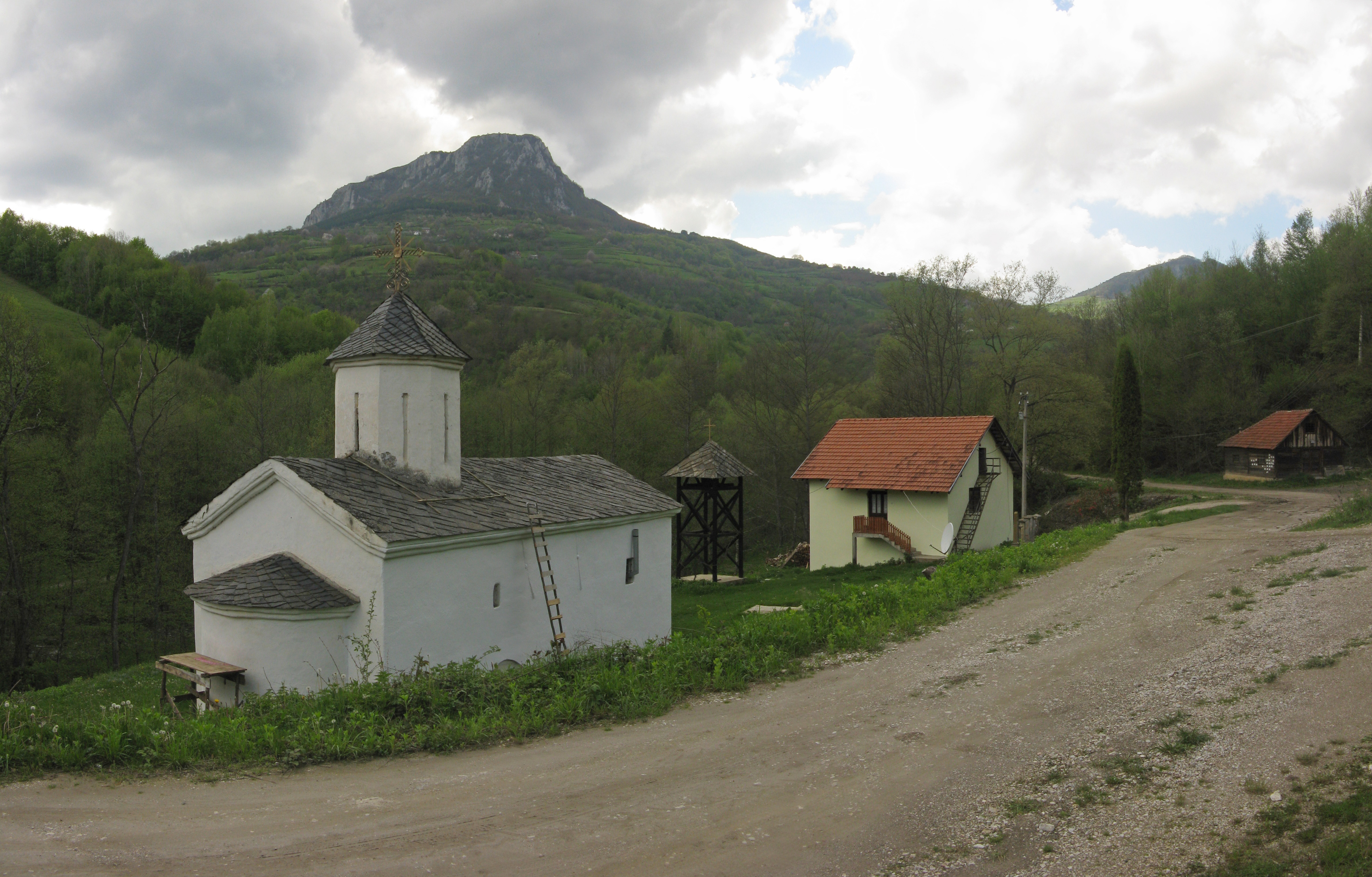 The Church of St. Nicholas in the Village of Brezova, near Ivanjica